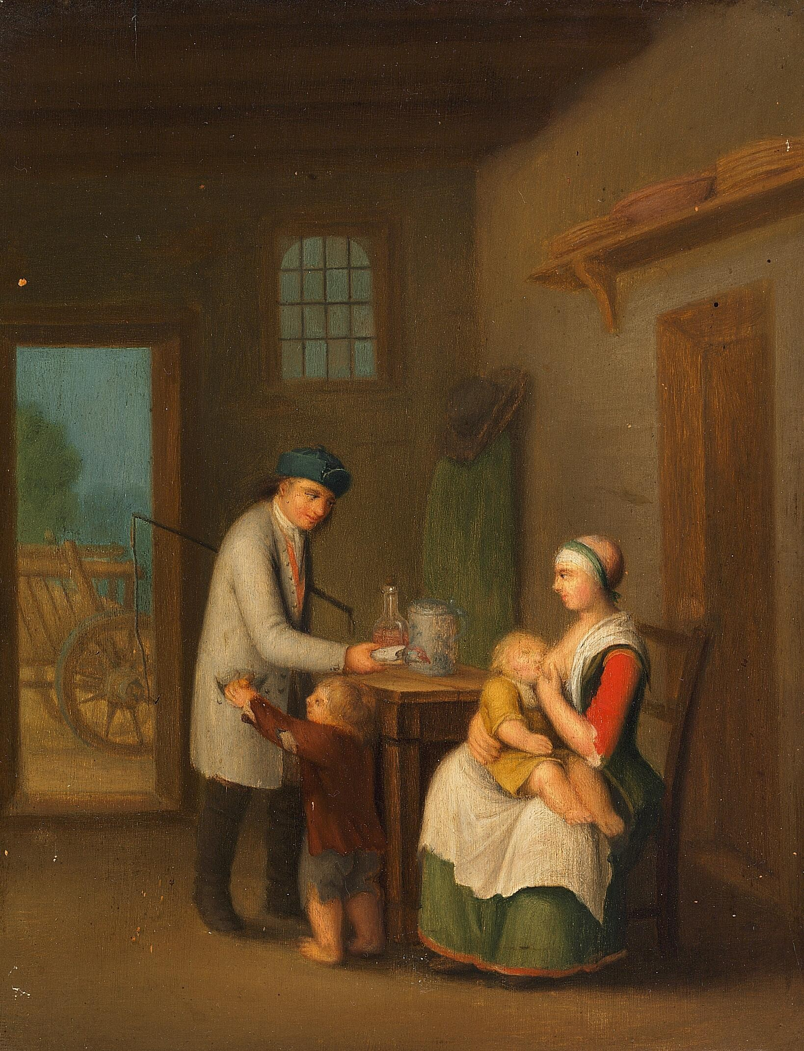 Family Interior with Breastfeeding Mother (one of a pair)